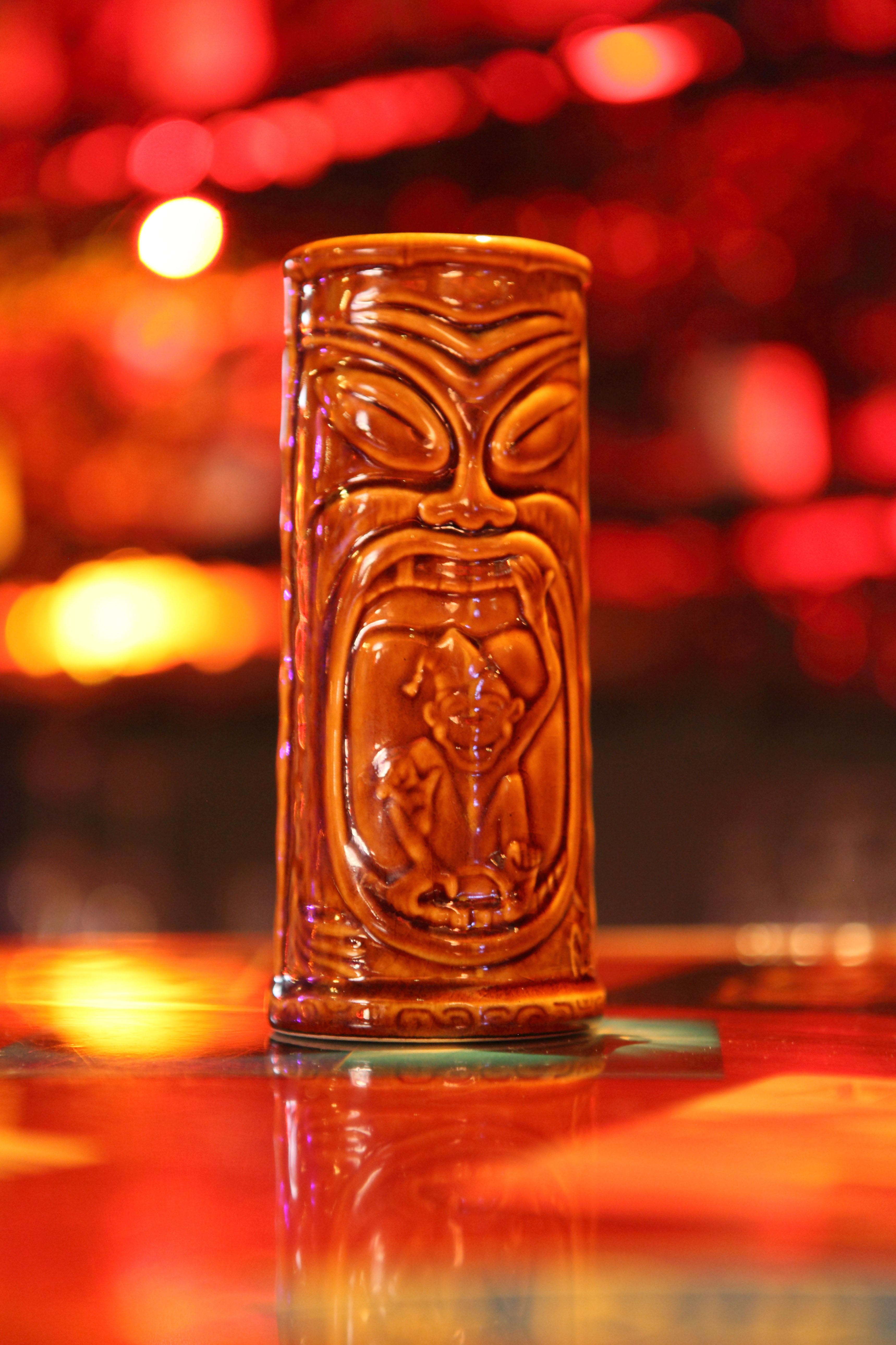 A tiki mug from a tiki bar in California